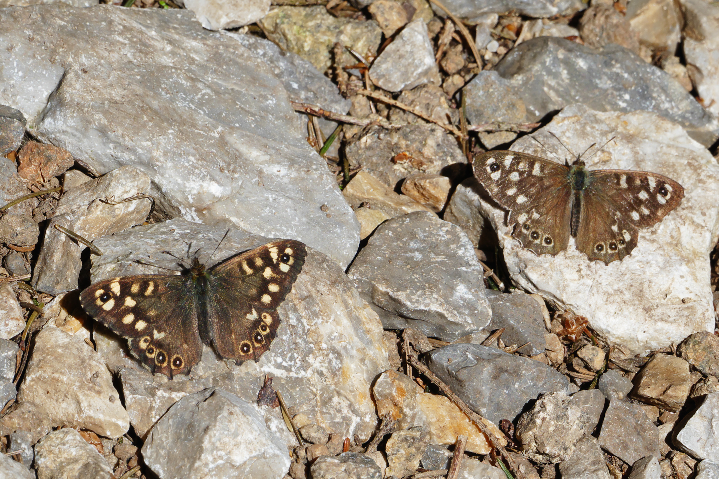 Female and male of Speckled wood (butterfly) in the Harz in Northern Germany, May 2018